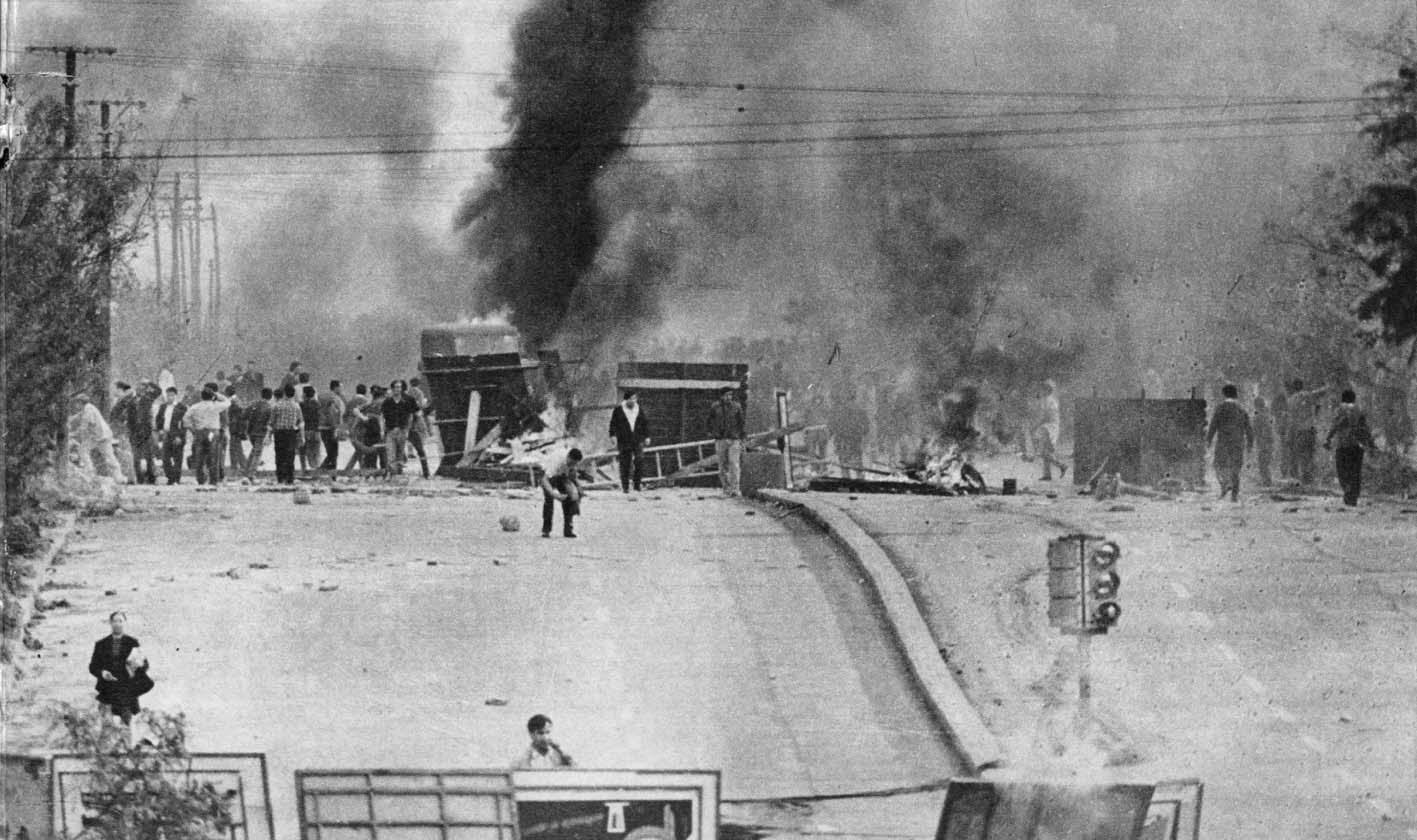 Cordobazo. General strike in protest against the political and economic decisions of the military dictatorship. Bulevar San Juan, Córdoba Capital. In that place was murdered that day, the SMATA worker Máximo Mena.